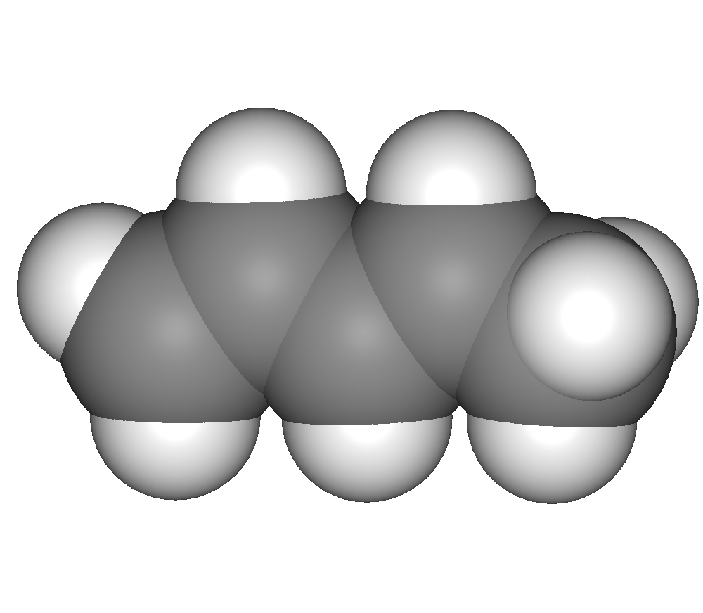 Chemical structure of piperylene (trans-penta-1,3-diene)